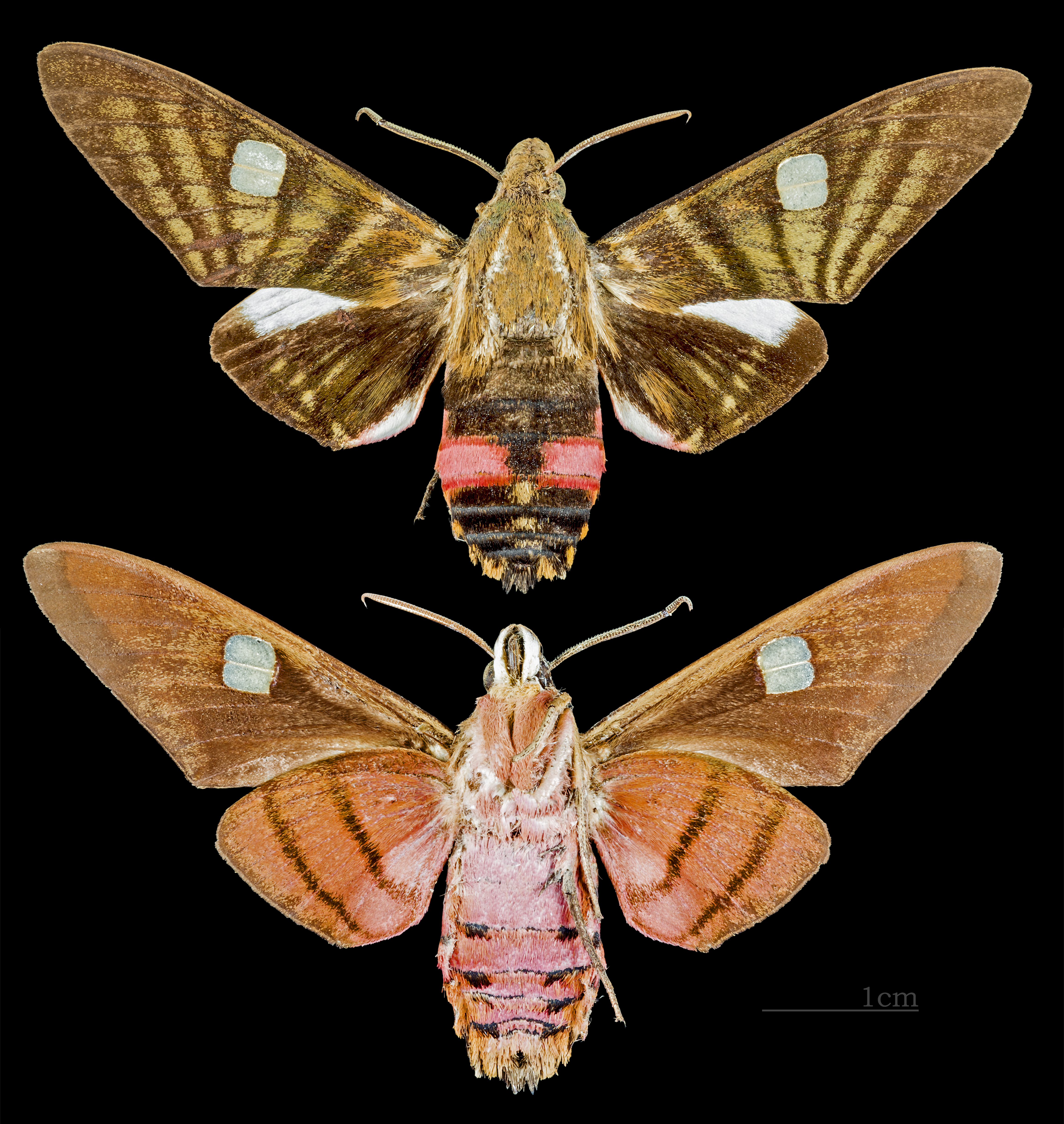 Proserpinus clarkiae - △ Ventral side Collection of the Mathematician Laurent Schwartz